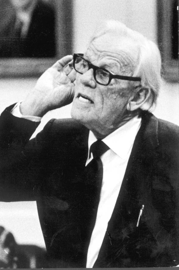 Sen. Verle A. Pope listens on the senate floor.